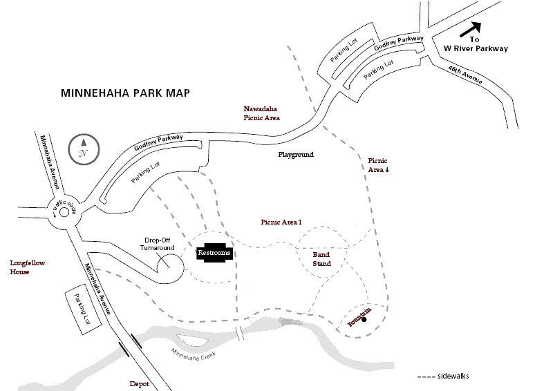 This map was created by me and I release it into the public domain.